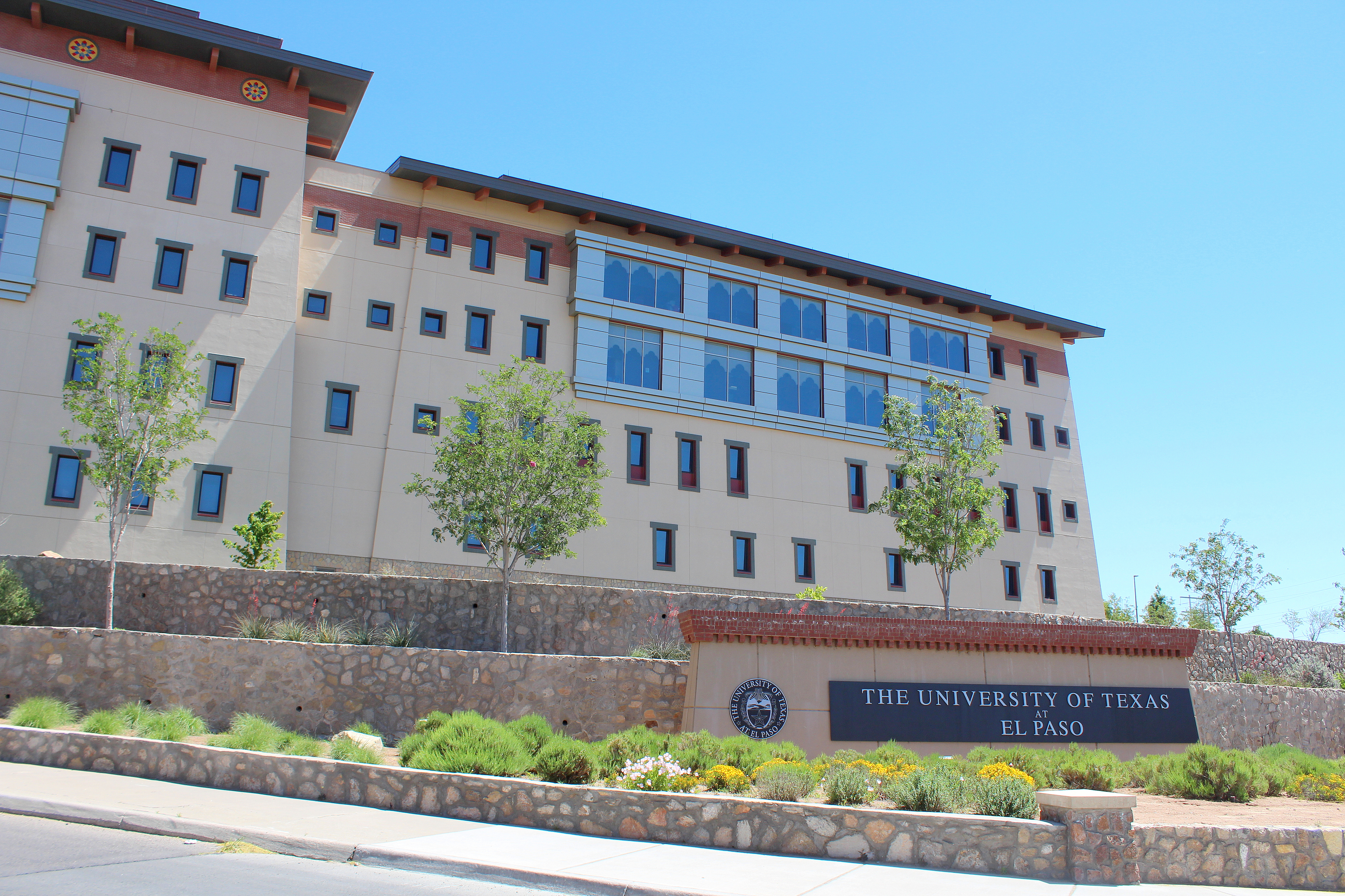 Centennial Plaza and Lhakhang Cultural Center, in University of Texas at El Paso (UTEP) campus.